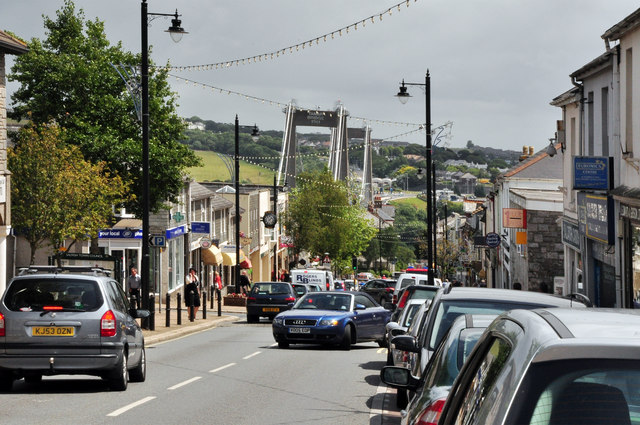 Fore Street - Saltash